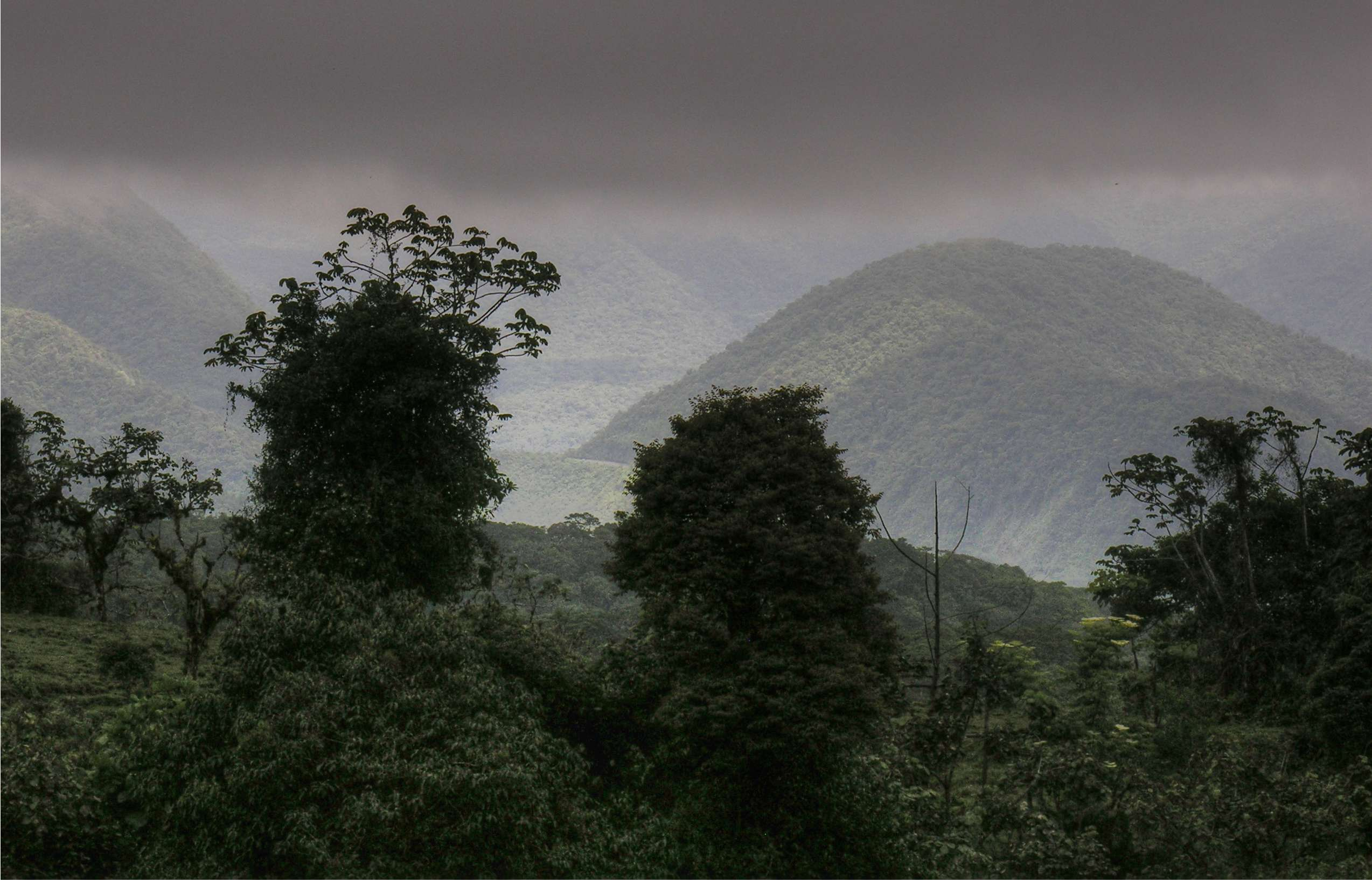 Coronado's landscape